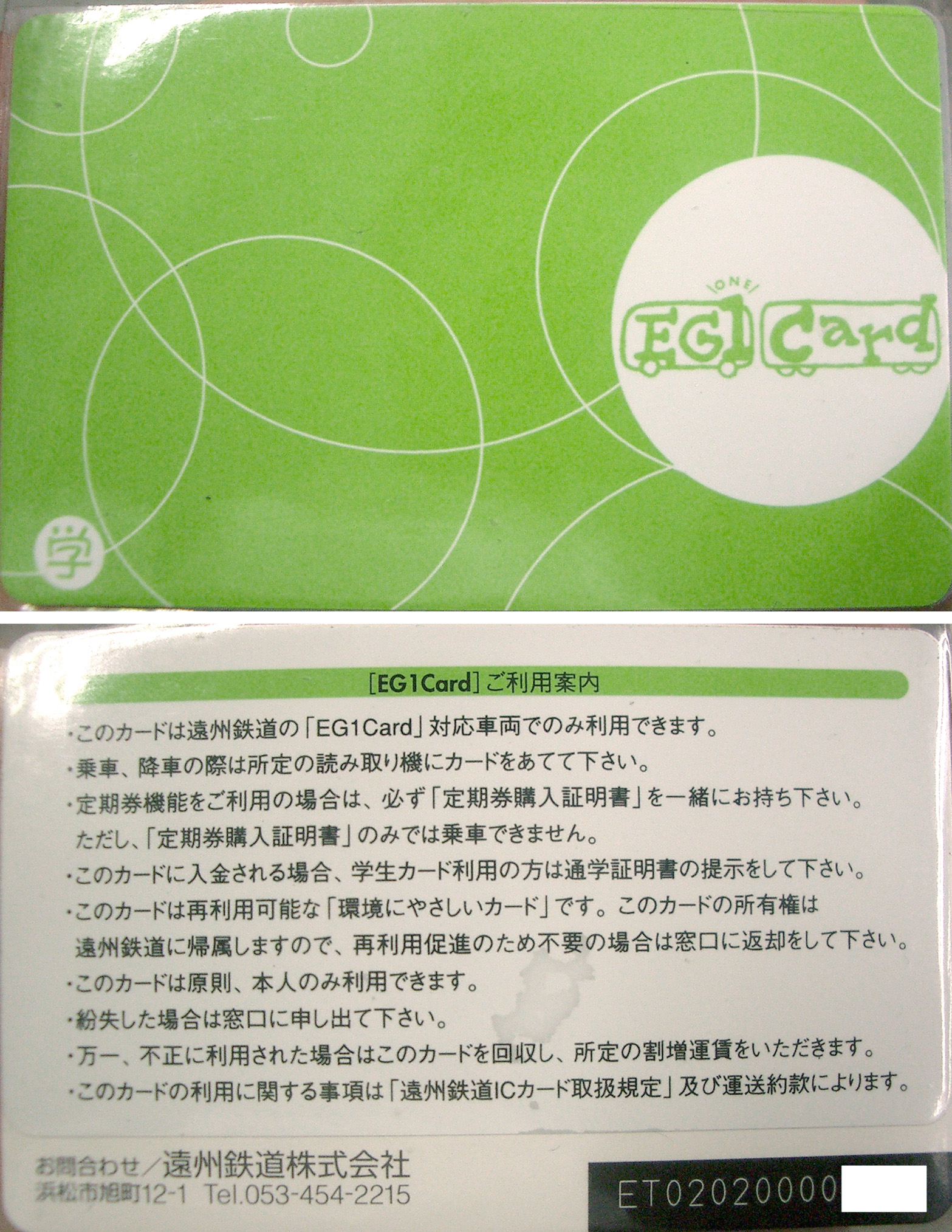 Enshu Railway EG1 Card (Student)